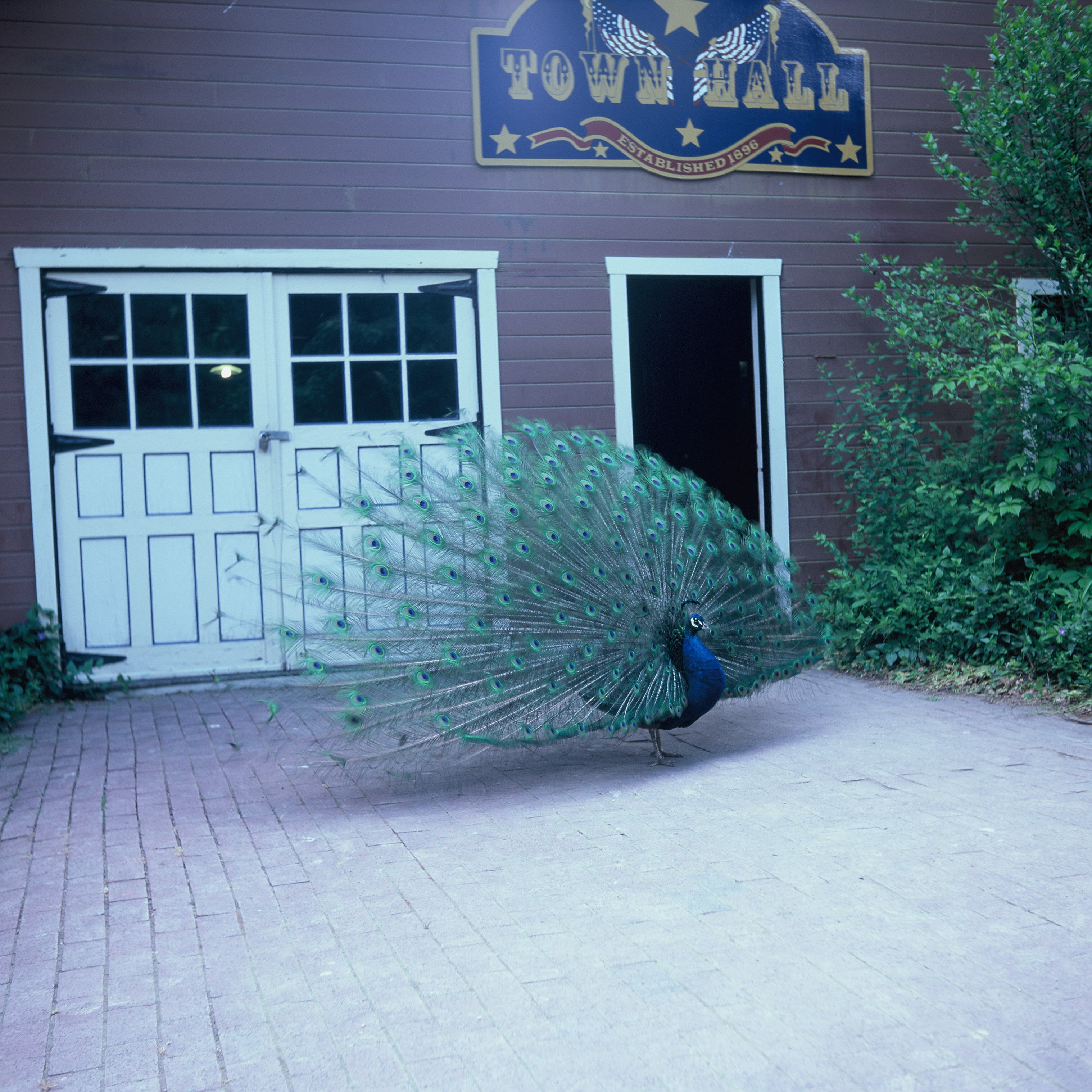 Peacock in front of Town Hall at Lagoon Amusement Park in Farmington, Utah protecting its territory (which was the town hall) Rolleiflex X-Automat camera